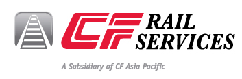 CF Rail Services logo